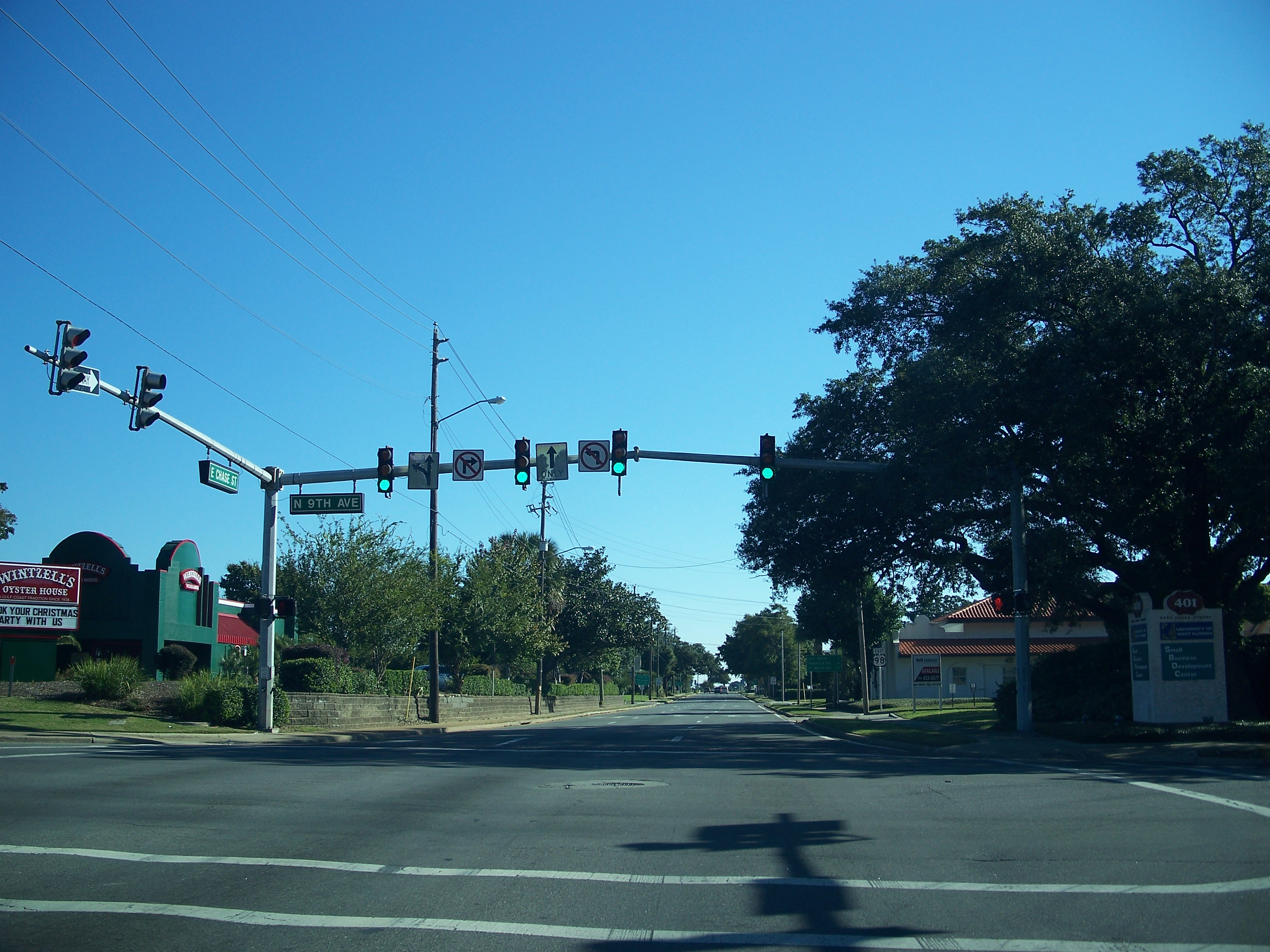 Pensacola, Florida: US 98, looking east